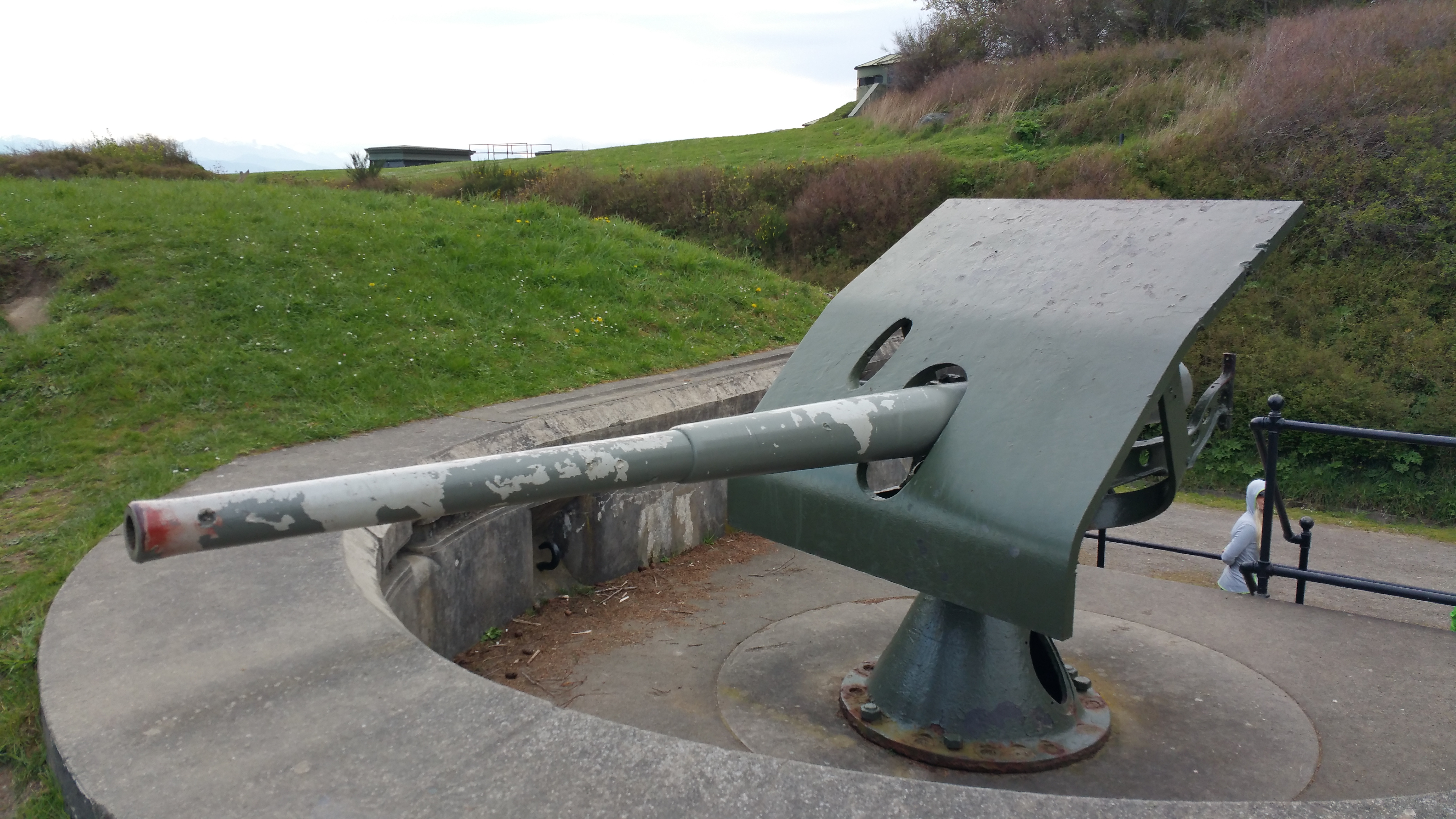 Visit to Fort Casey 3-inch gun M1903 at Fort Casey, Washington state.